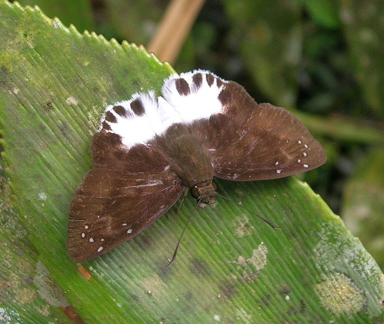 Tagiades litigiosa from North Wynaad